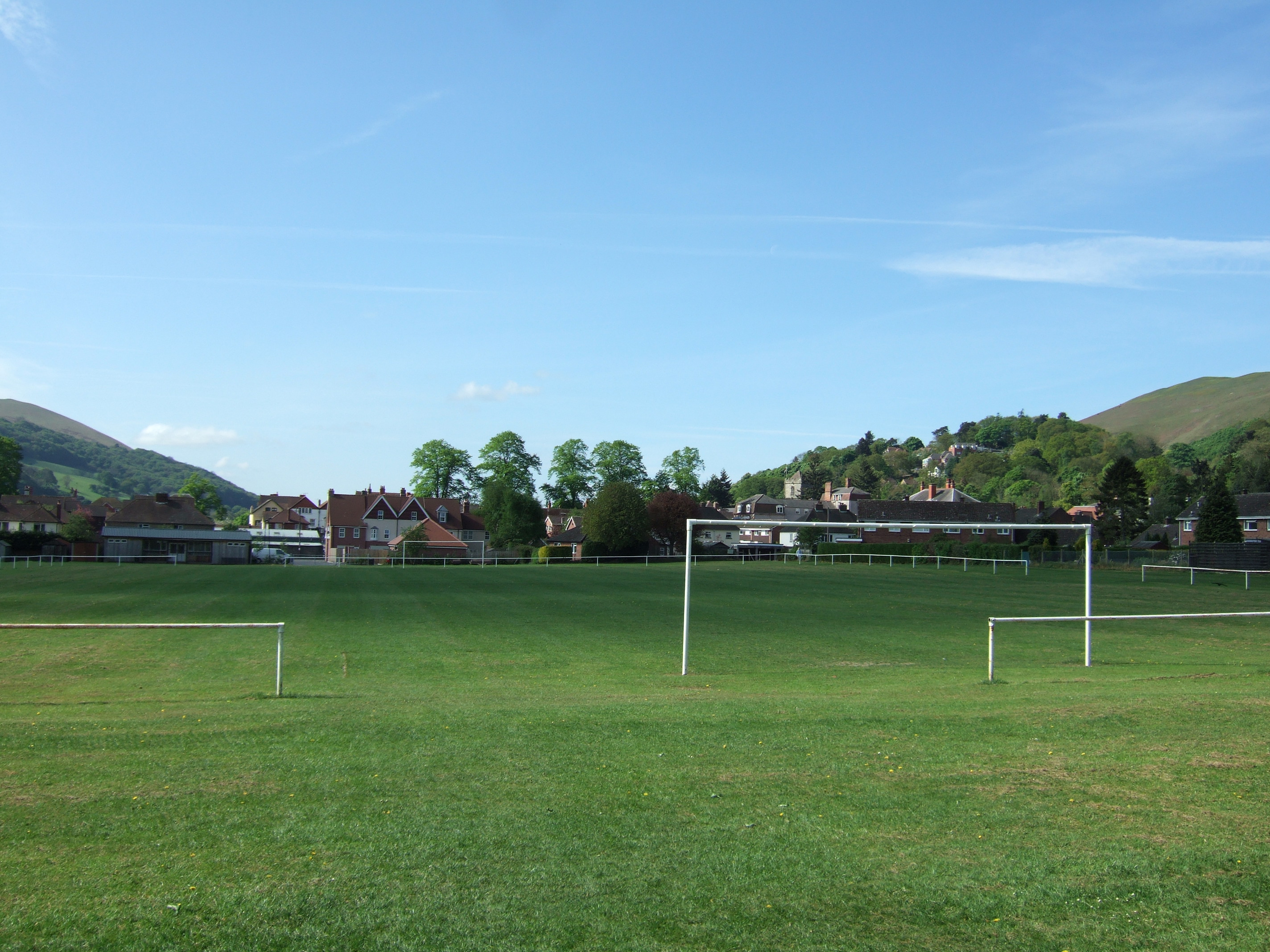 Russell's Meadow in Church Stretton, Shropshire, taken in 2011.